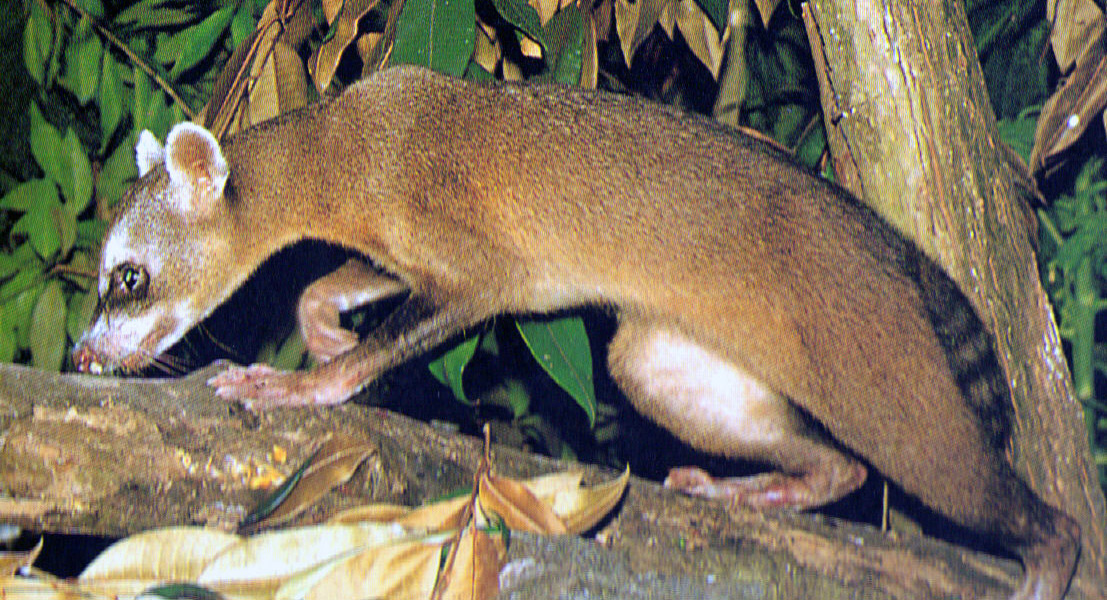 Crab-eating Raccoon